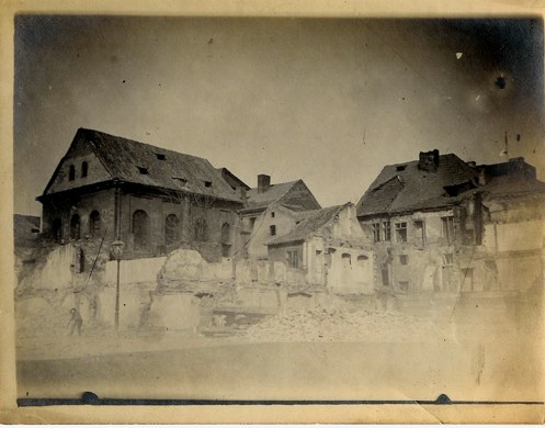 Scan of a vintage postacrd of the Zigeuner Synagogue of Prague